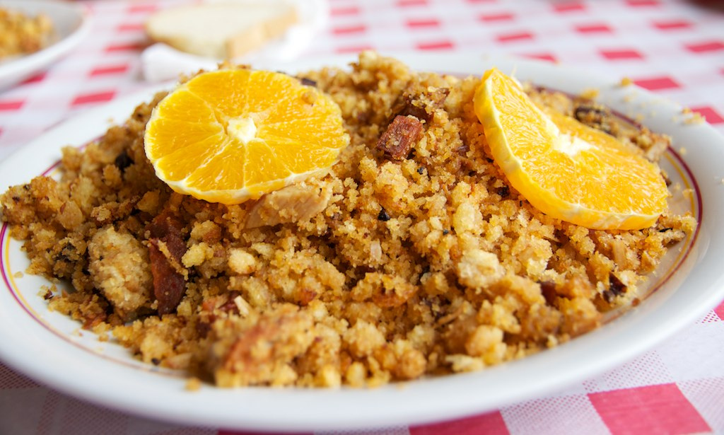 Migas con cachitos de lomo y pancetta, adornadas con rodajas de naranja. Buenisimo. Tomada durante una comida fantastica en una venta en los montes de Malaga. I take photos for fun and for my business blog (Say No! to the Office), food company website (The Tapas Lunch Company) and Spanish food portal (Spanish Food World). Copyright © 2011 Jonathan Pincas. All Rights Reserved. Please contact me if you're interested in using one of my pictures.